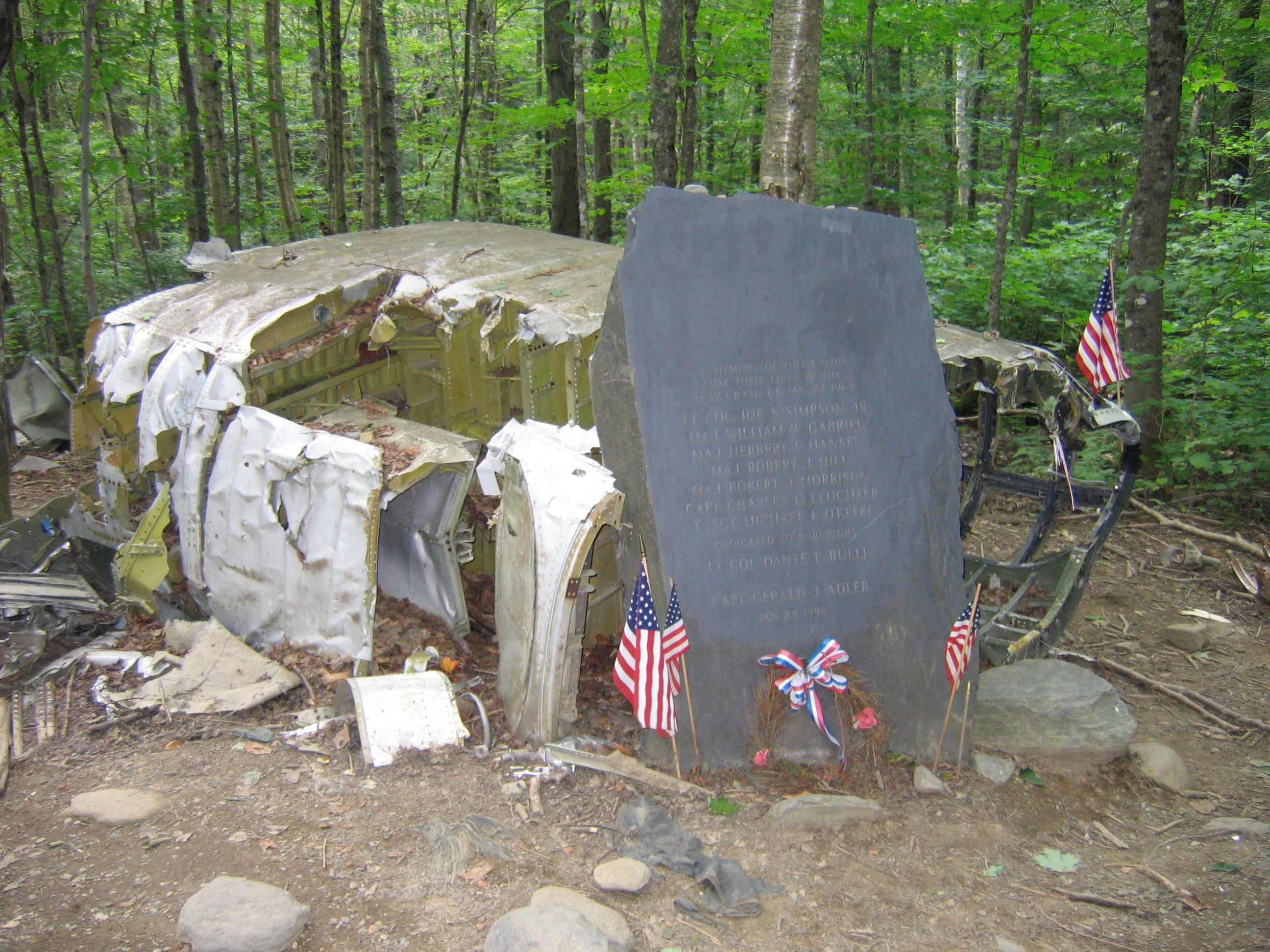 Wreckage of B-52 airplane on Elephant Mountain, near Greenville, Maine.